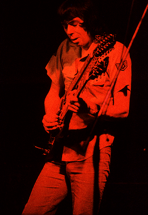 Andrew Latimer, Camel, Chateau Neuf, Oslo, Norway